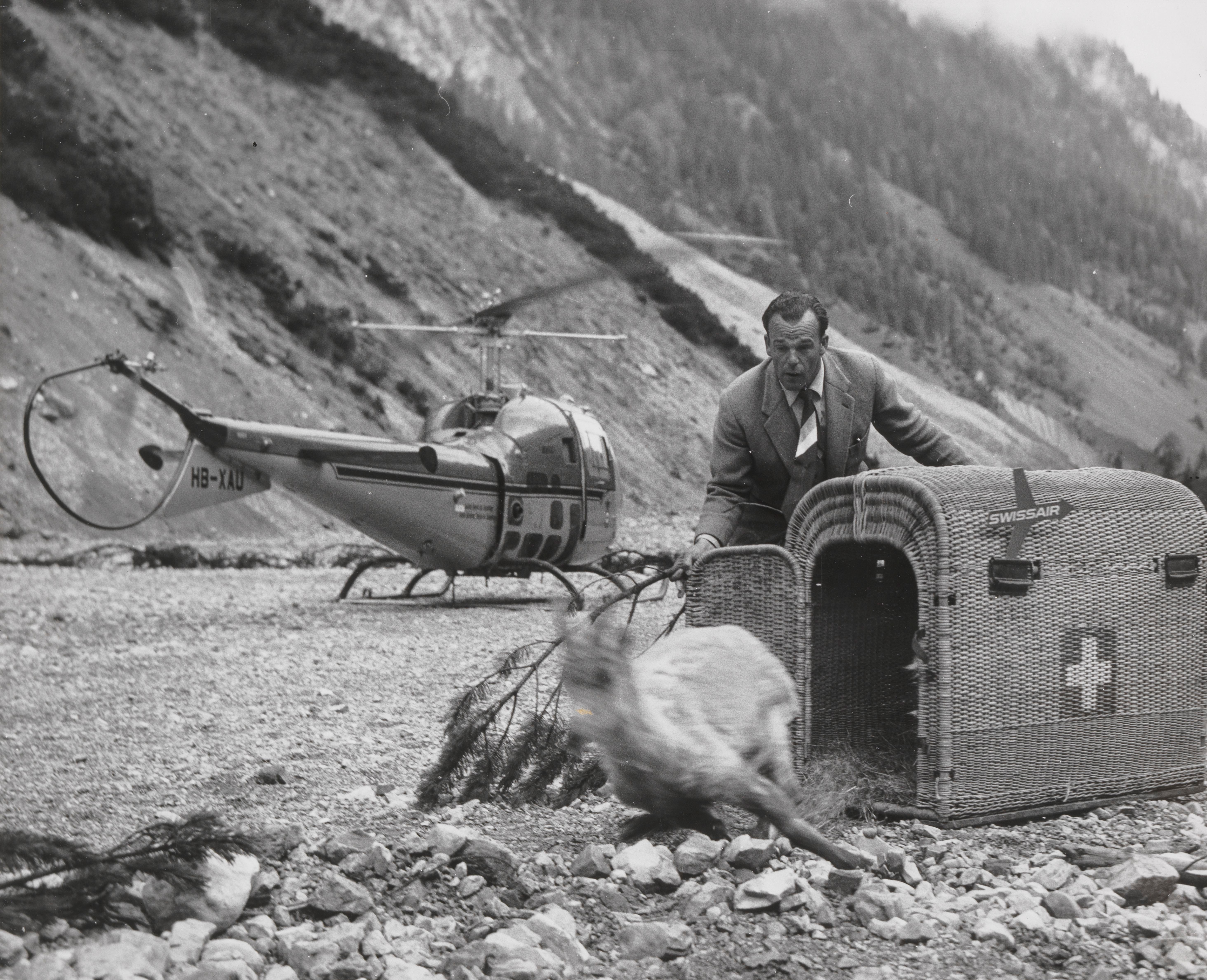 Hermann Geiger 1958 freeing most likely an ibex in the mountains. In the background a Bell 47J can be seen. Picture likely taken in the Engadin area, as there is a related image concerning the airfield of Samedan. Helicopter HB-XAU (s/n: 1426) came to Switzerland in 1957 and was a gift to the Swiss Air Ambulance (then Schweizerische Lebensrettungsgesellschaft) from Coop Basel, a Swiss retail company, on 14th of March 1957. It flew with the Swiss Air Ambulance until July 1965, when it went to AECS Wallis. From 1968 it flew with Heliswiss and crashed into a fjord at Fiskenaess/Greenland on June 11th, 1971.